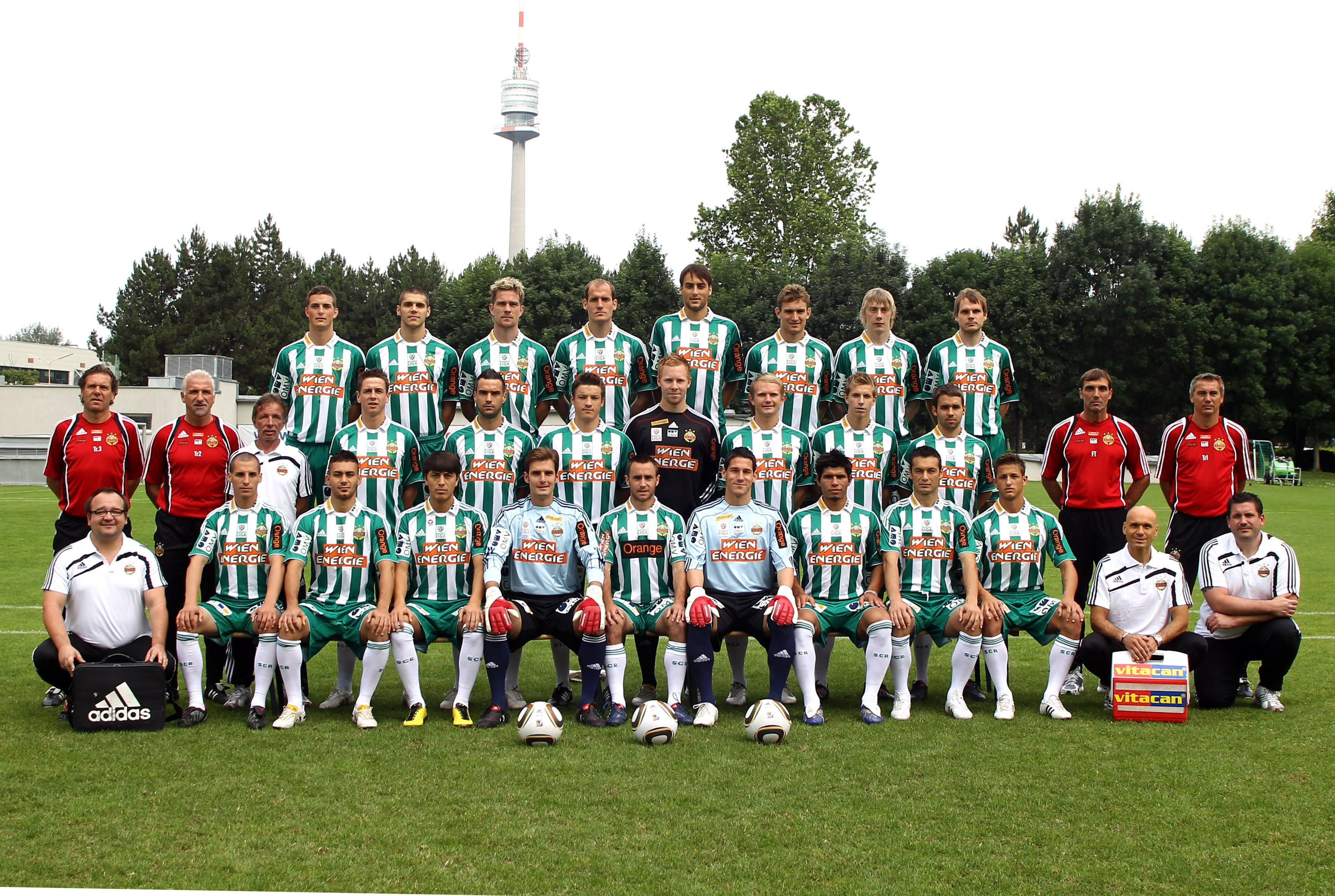 SK Rapid Wien Austrian Football Bundesliga 2010–11 → For the names of the players move the mouse over the photo.